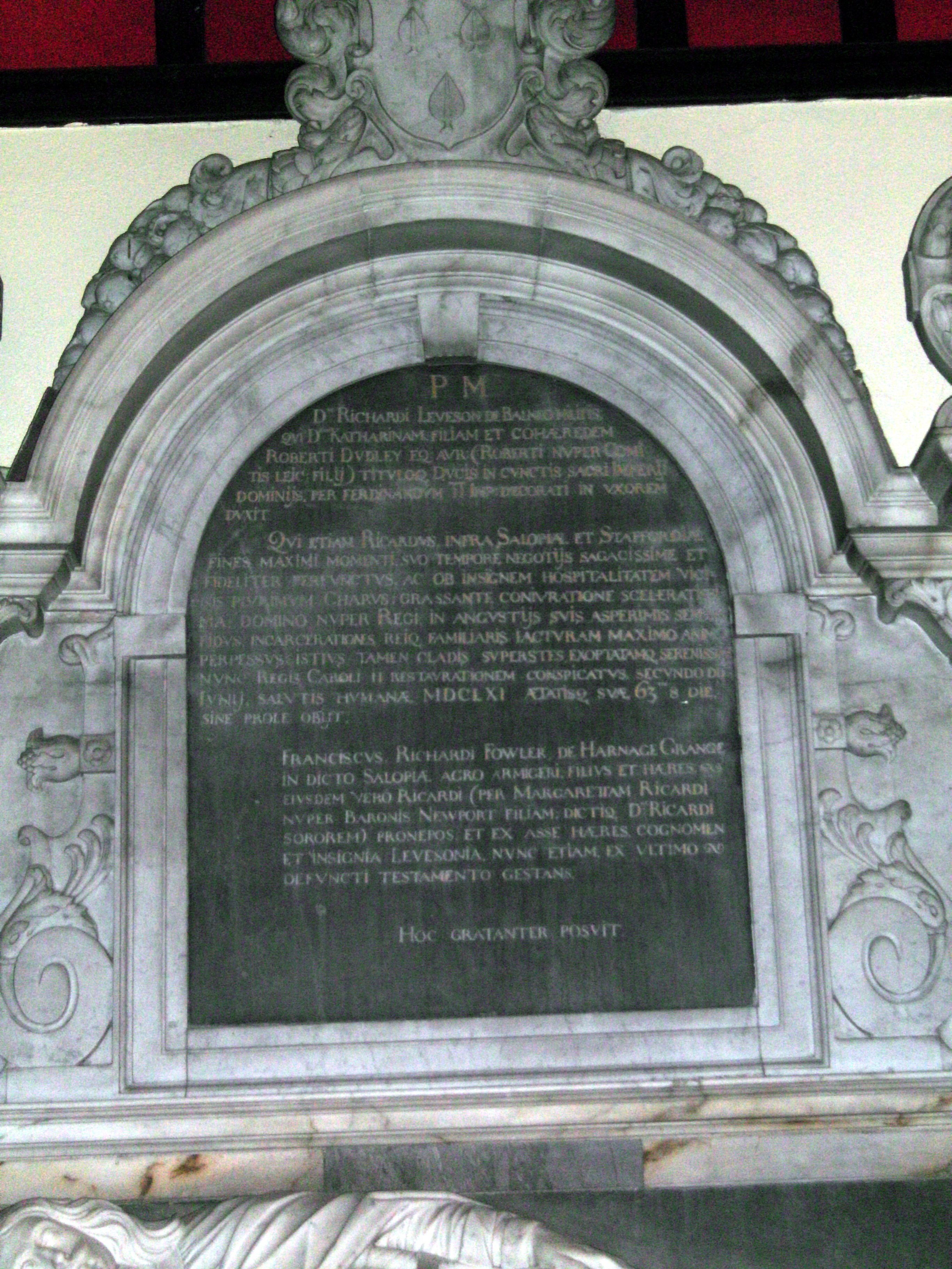 Inscription in closeup on memorial to Richard Leveson (1598-1661) and his wife Katharine Dudley. St Michael's church, Lilleshall, Shropshire.